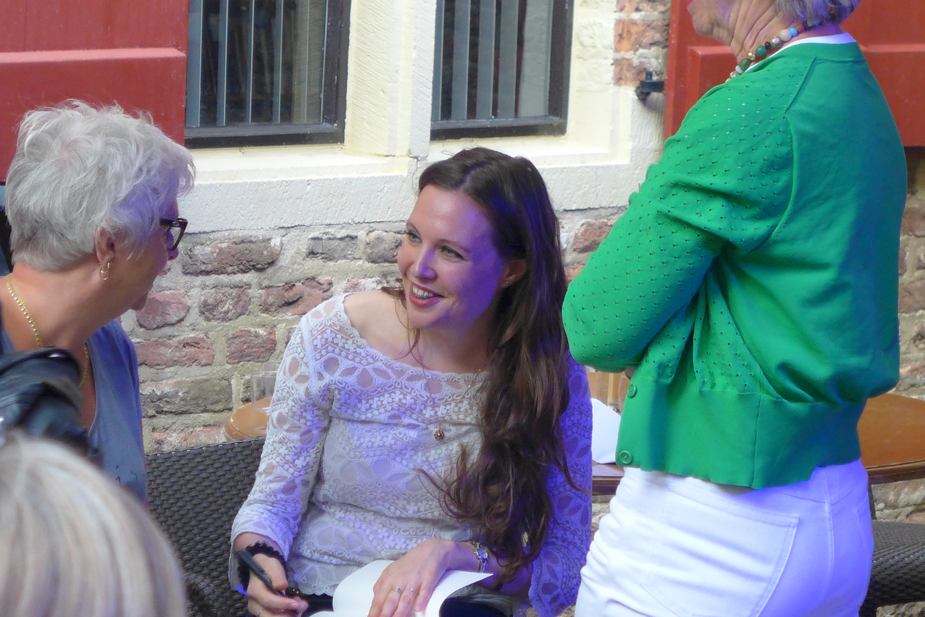 De Nederlandse dichteres Ellen Deckwitz kort na haar optreden op het poëziefestival 'Het Tuinfeest' in Deventer op 1 augustus 2015.